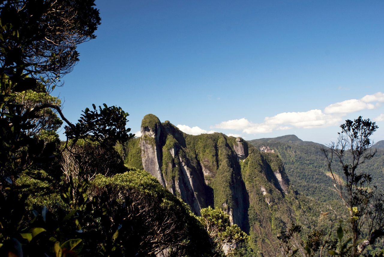 Ambatotsondrona (The leaning rock) - On the way to Camp Simpona - Marojejy National Park